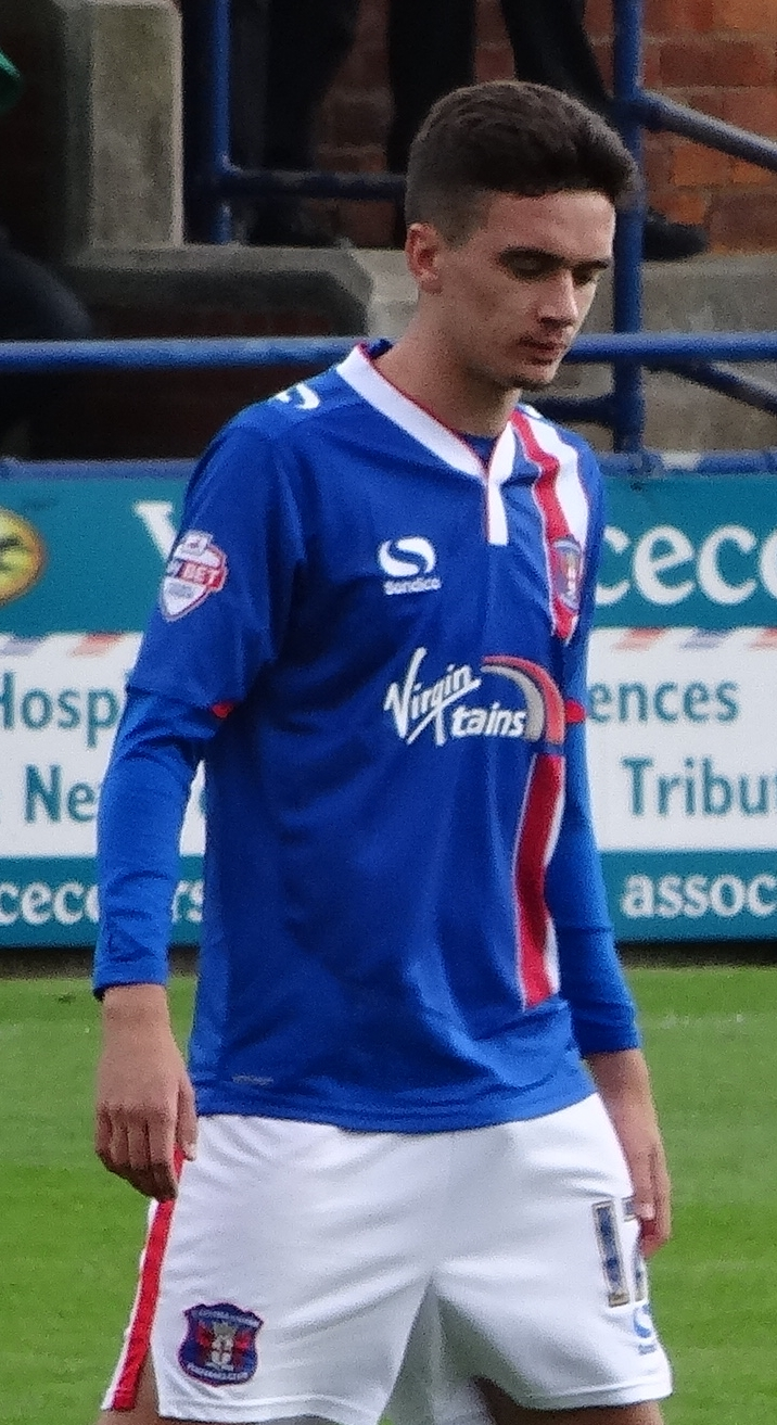 Alex Gilliead playing for Carlisle United against York City at Bootham Crescent, York on 19 September 2015